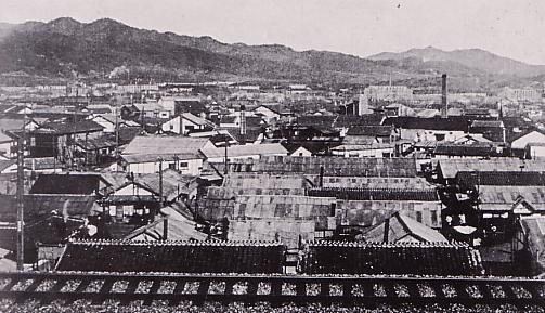 View of Ranan(Ranam, present-day Cheongjin)